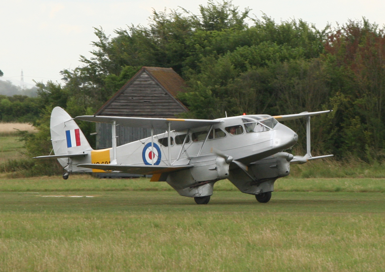 The de Havilland Dragon Rapide G-AIYR plane at Old Warden 05 July 2009